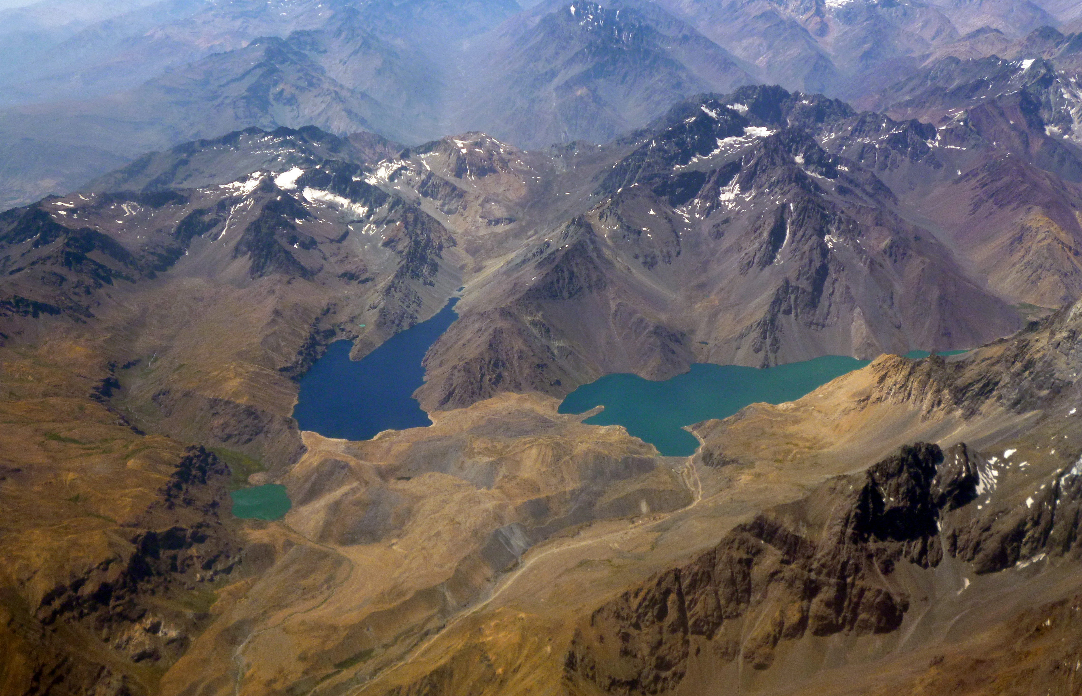 Laguna Negra and Embalse El Yeso in central Chile.